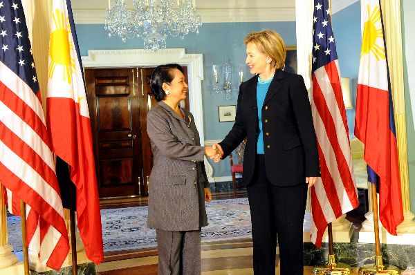 Secretary of State Hillary Clinton held a bilateral meeting with Philippine President Gloria Macapagal-Arroyo.